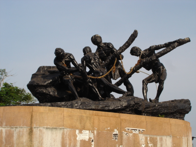 Monument for Working Men located at the Beach in Chennai (Madras) India. Photographed on a very warm afternoon